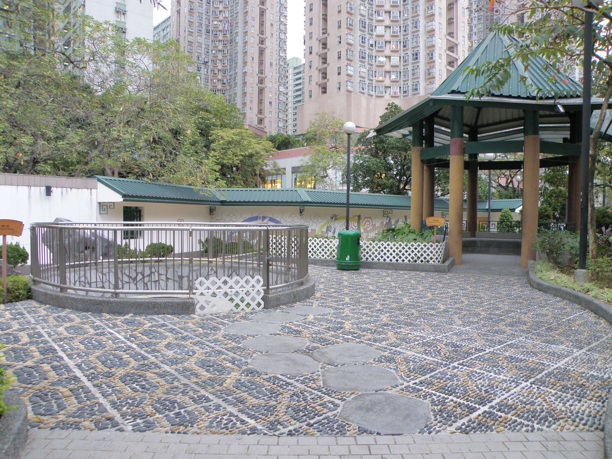 Wong Tai Sin Culture Park in Wong Tai Sin, Hong Kong.